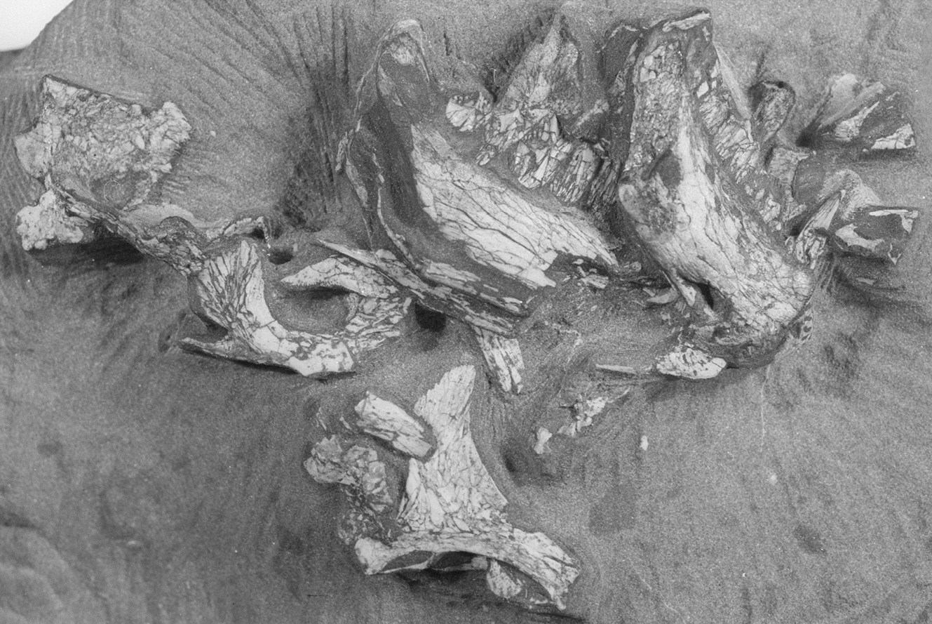 Holotype of Pegomastax africana: Partial Skull with jaw fragments and teeth, photo and drawing.